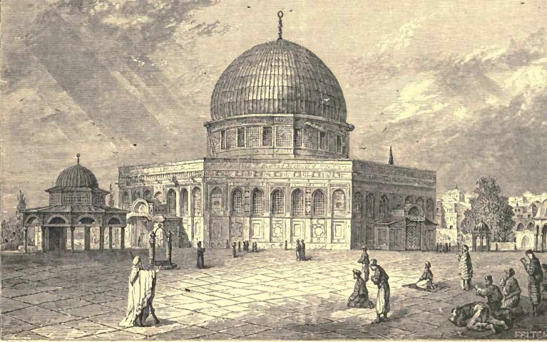 Jerusalem dome of the rock 1886